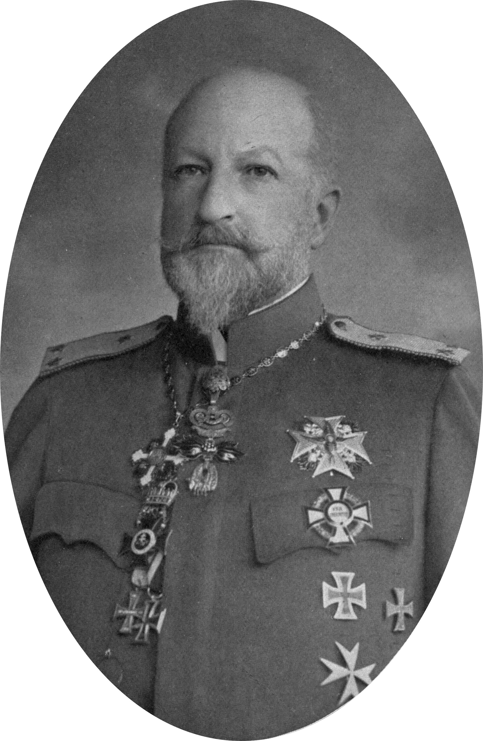 Bulgarian king Ferdinand I